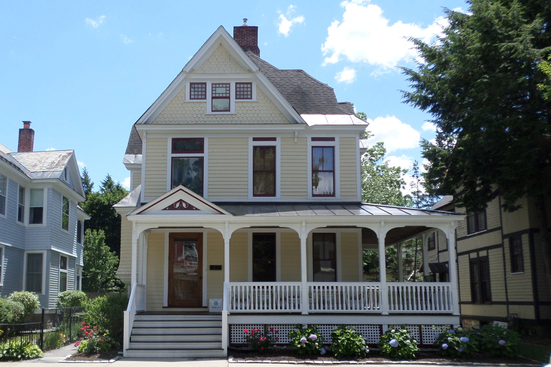 Home designed by Robert Newton Brezee (1886)